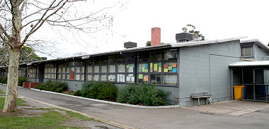 A typical Victorian state school of the period 1950-1974, built according to the Department of Education’s generic ‘light timber construction’ design.